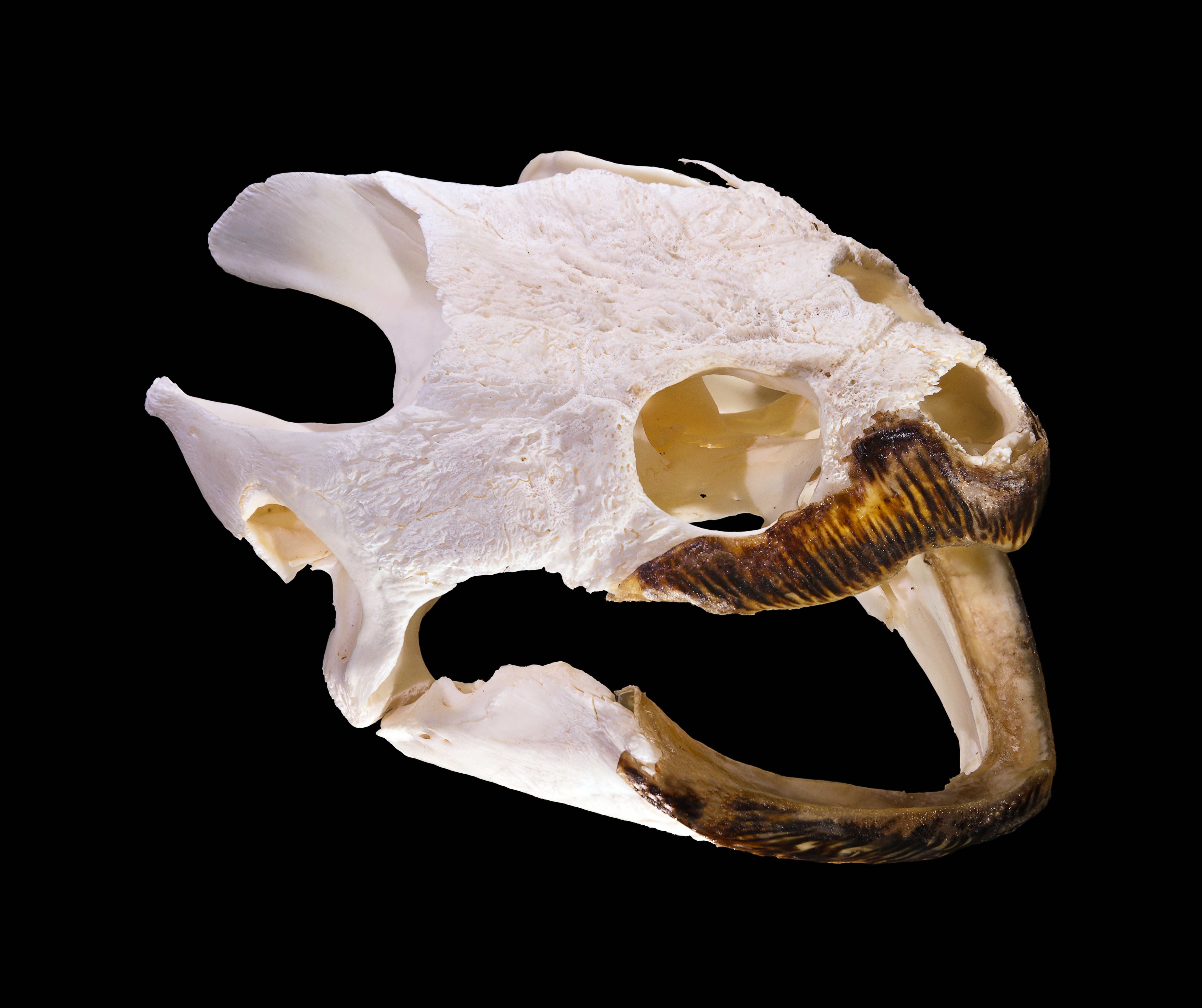 Snapping Turtle - Skull Louisiana - USA Size : 112x64x50 mm